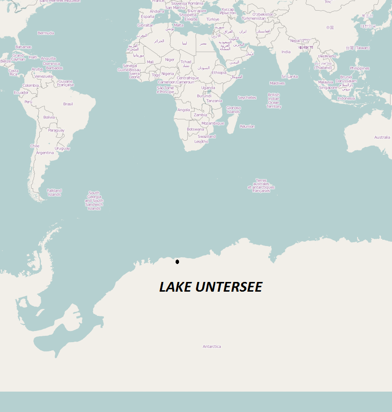 Map showing rough location of Lake Untersee in Antarctica